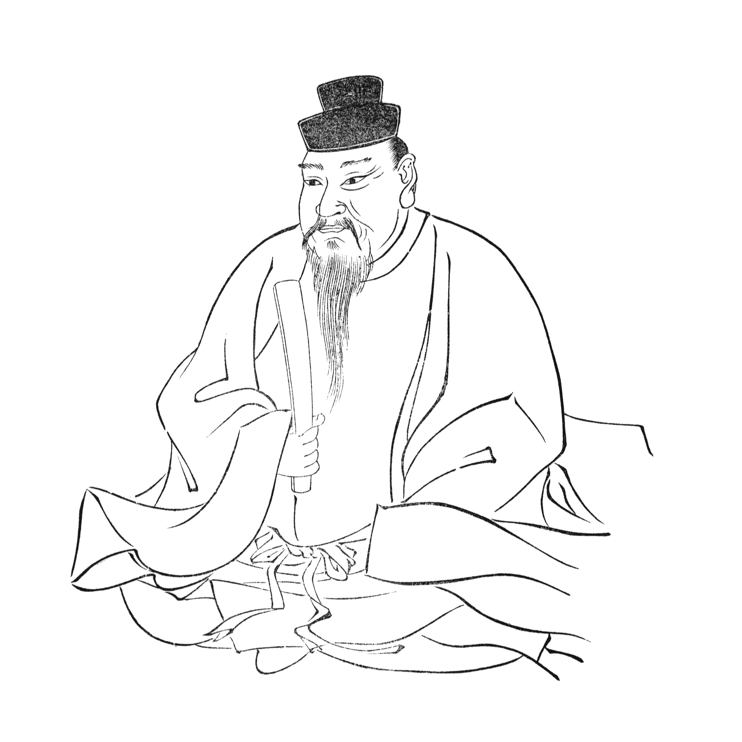 Portrait of the Emperor Ōjin (Ōjin Tennō)